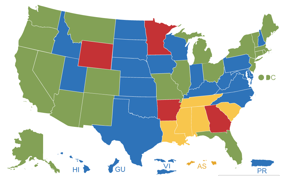 Wage and Hour Division (WHD) US Department of Labor Minimum Wage Laws in the States - January 1, 2014 Historical Table Click on any state or jurisdiction to find out about applicable minimum wage laws. Note: Where Federal and state law have different minimum wage rates, the higher standard applies. Green States with minimum wage rates higher than the Federal Yellow States with no minimum wage law Blue States with minimum wage rates the same as the Federal Red States with minimum wage rates lower than the Federal Brown American Samoa has special minimum wage rates Minimum Wage and Overtime Premium Pay Standards Applicable to Nonsupervisory NONFARM Private Sector Employment Under State and Federal Laws January 1, 2014